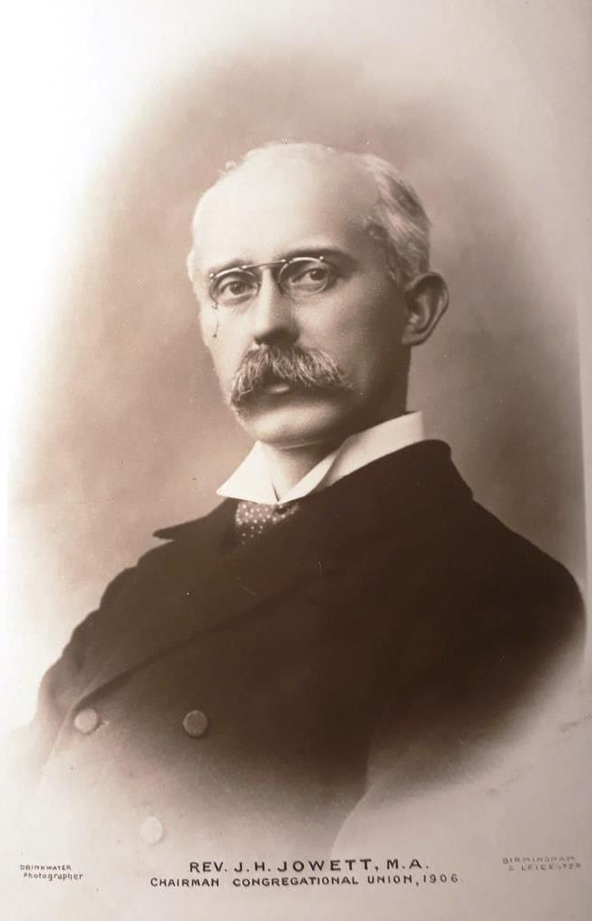 Rev John Henry Jowett MA, Chairman Congregational Union 1906